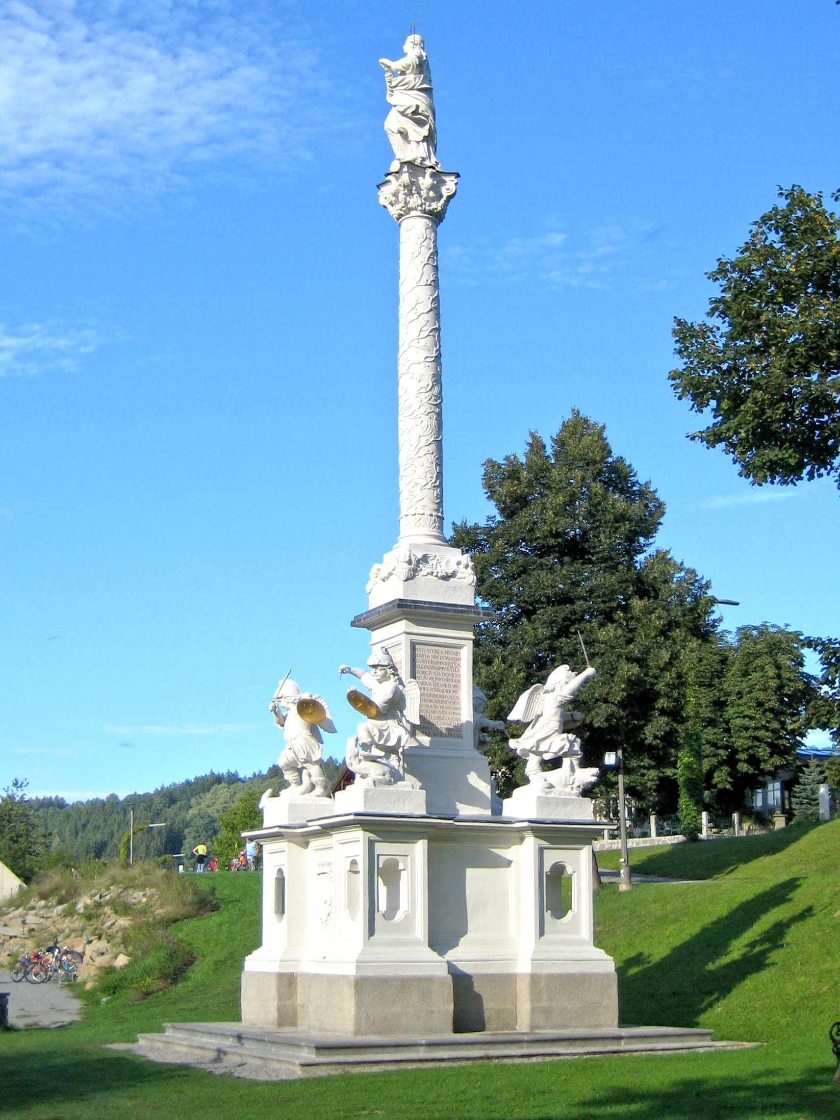 Maria column in Wernstein am Inn